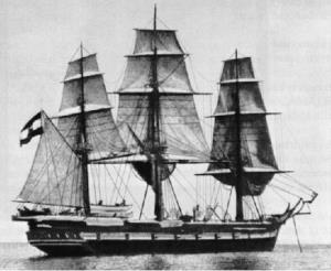 Saida sailing ship. Austro-Hungarian Empire. 1892-1894ː Round the world tripː Pola, Bangkok, Sidney, Melbourne, Pola.